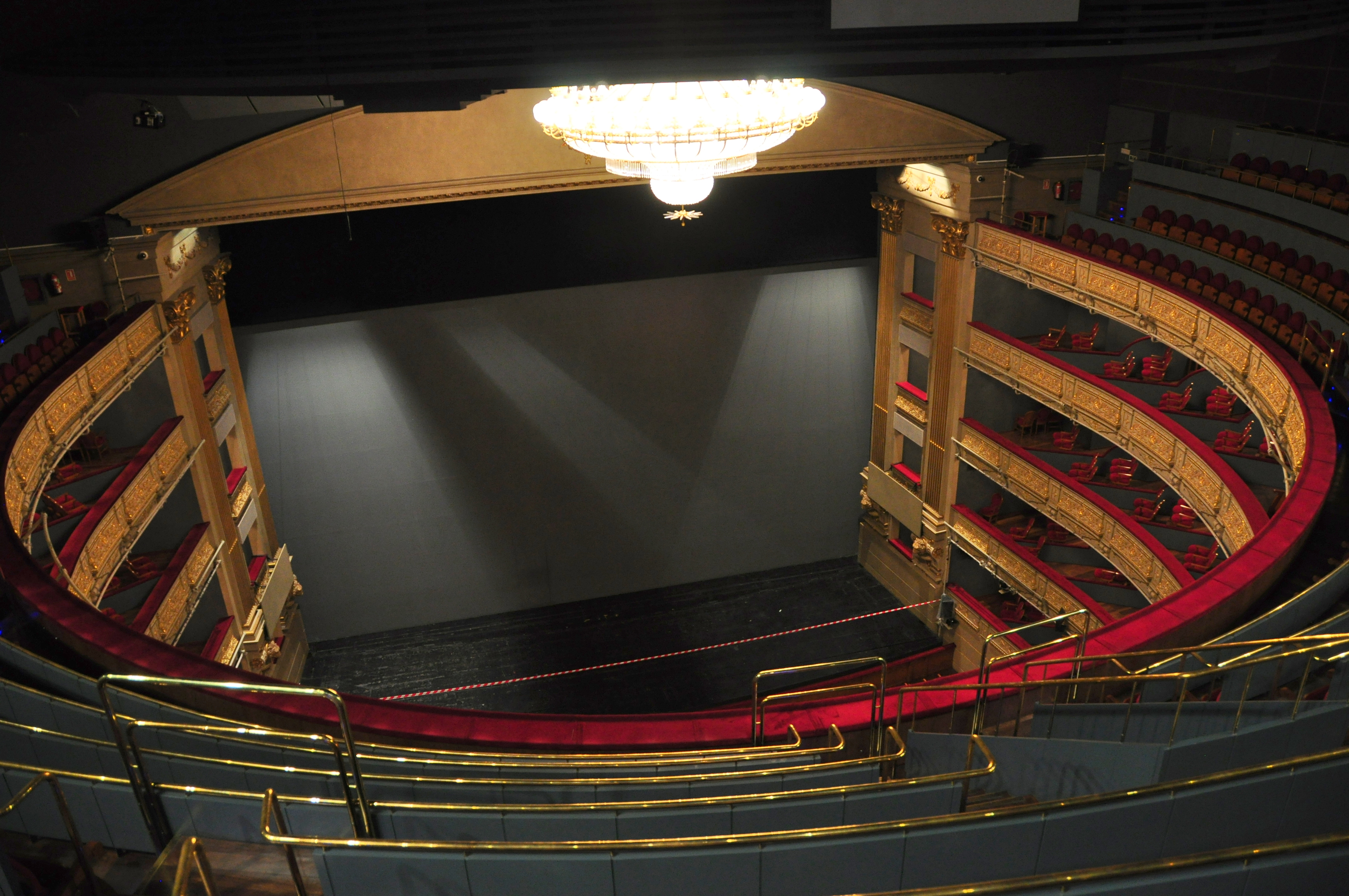 Teatro Real main auditorium as seen from the 6th floor (the "Paraiso")